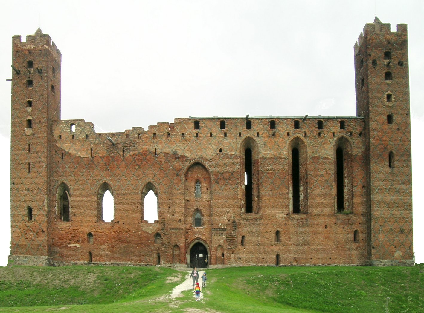 Teutonic Knights castle in Radzyń Chełmiński, view from south